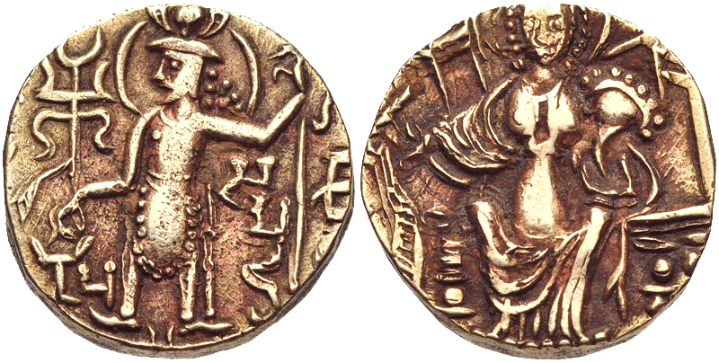 Samudra Gandhara coin, Punjabi mint Circa CE 350-375